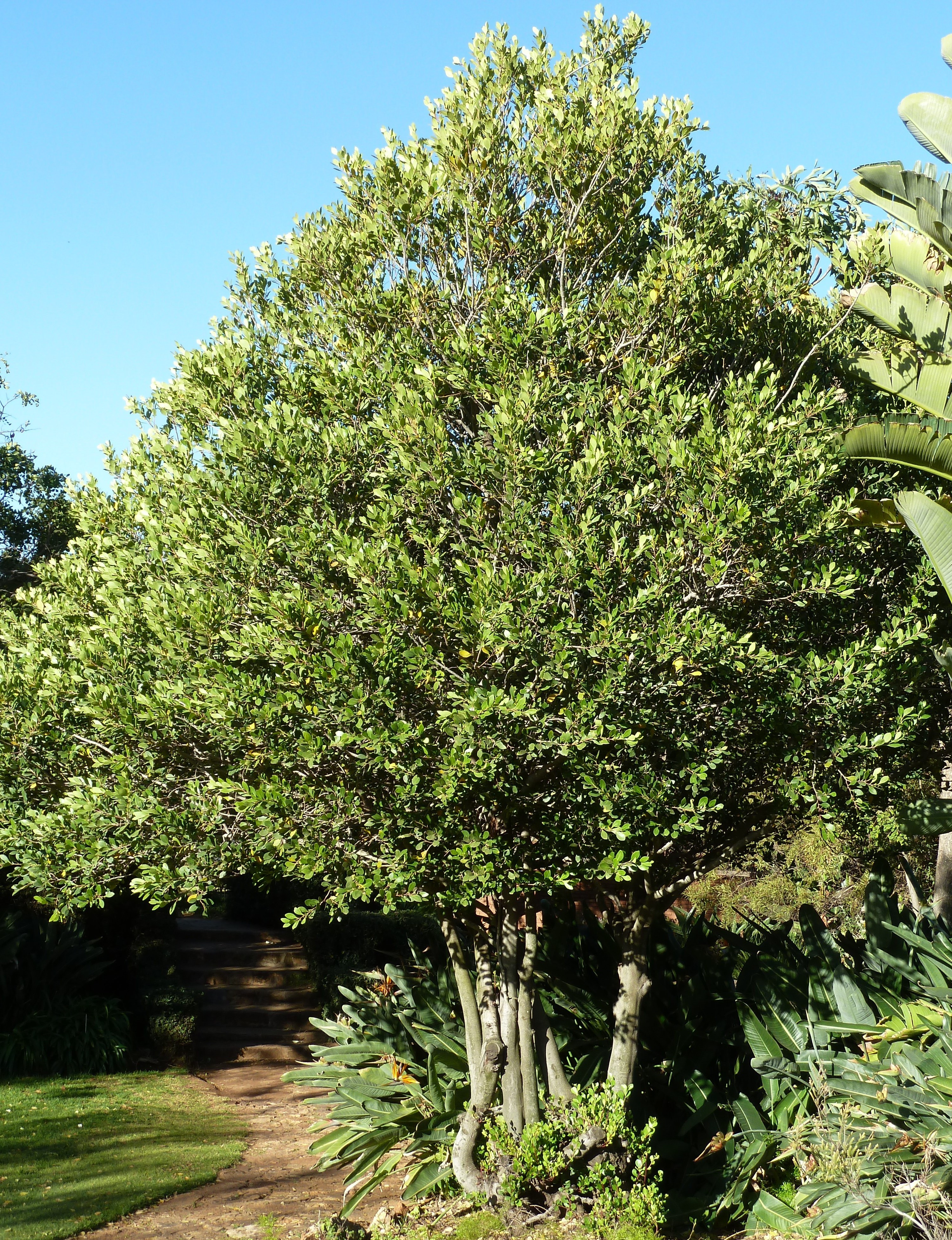 Habit of a Candlewood in Jan Celliers Park, Pretoria